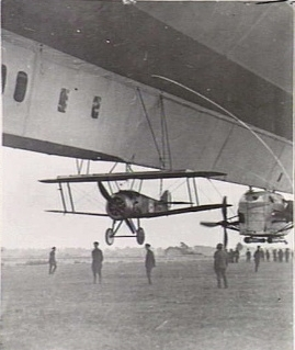 AWM Caption : "DROPPING OFF (BRITISH AIR MINISTRY PHOTO PPG293) FRONT VIEW OF SOPWITH CAMEL DROPPING OFF AIRSHIP R.23" See also : Image:SopwithCamelFlyingOffAirshipR23.jpeg Image:R23WithSopwithCamelWWI.jpg